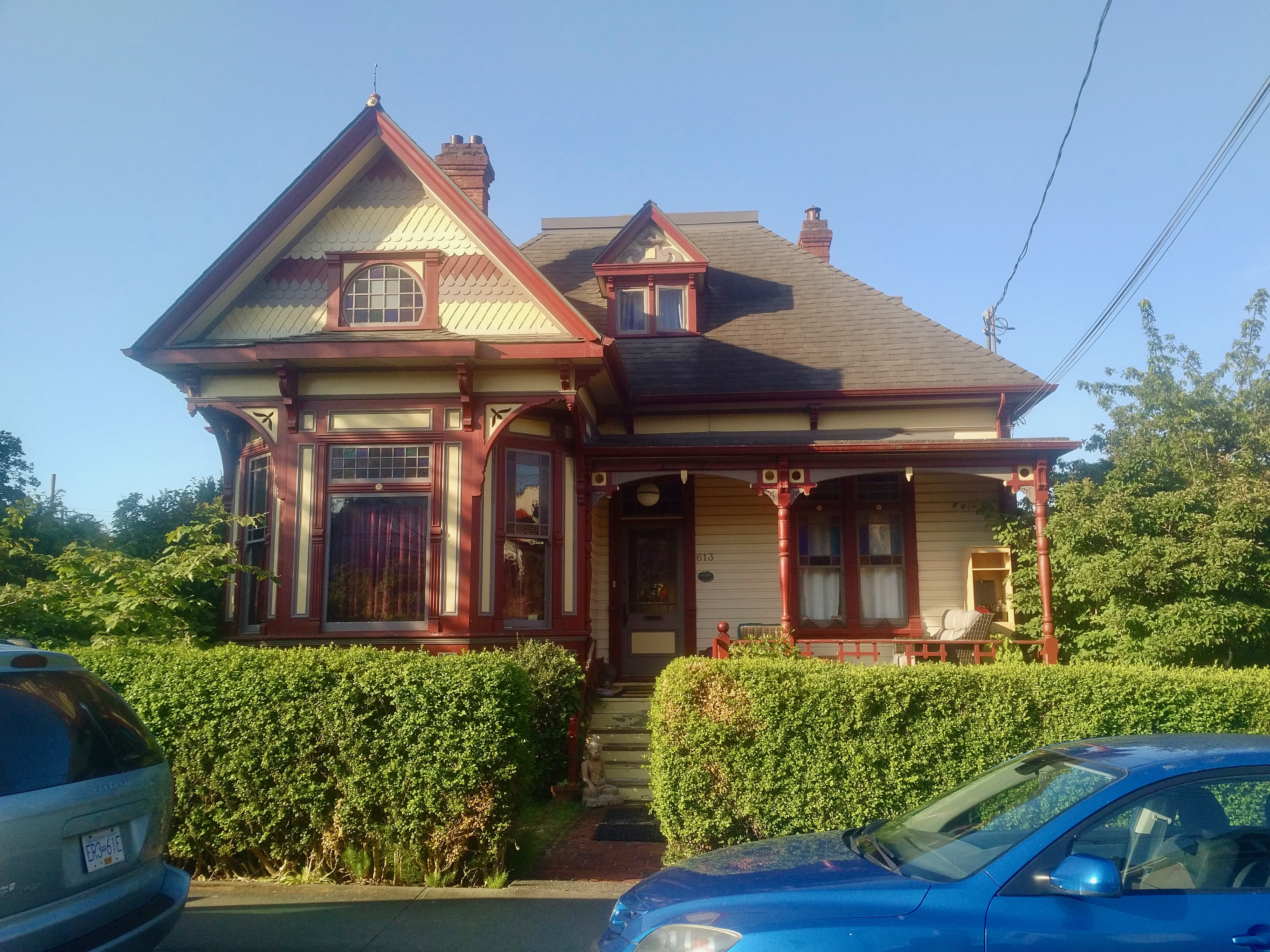 613 Avalon Road